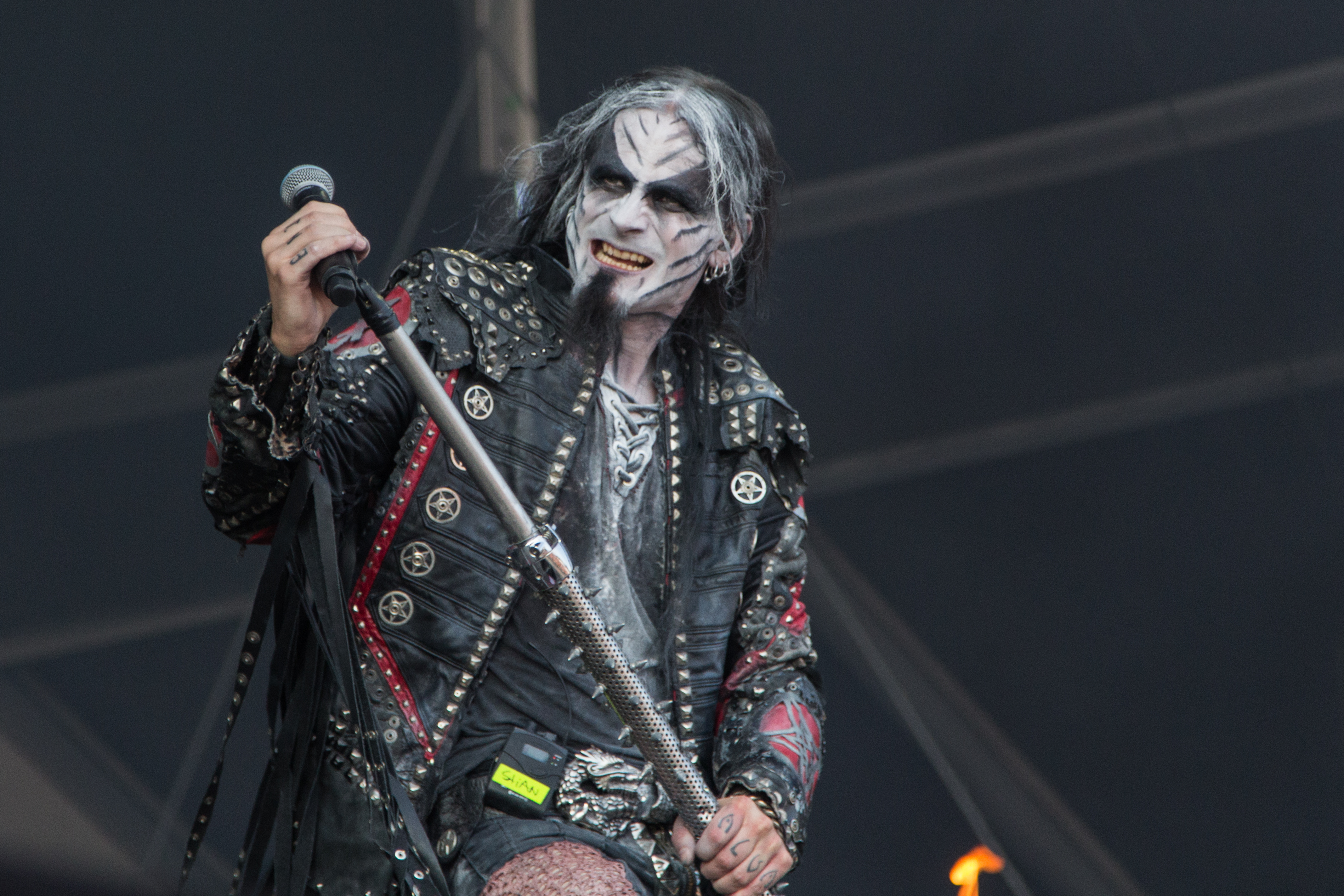 Stian Tomt "Shagrath" Thoresen from Dimmu Borgir at the See-Rock Festival 2014